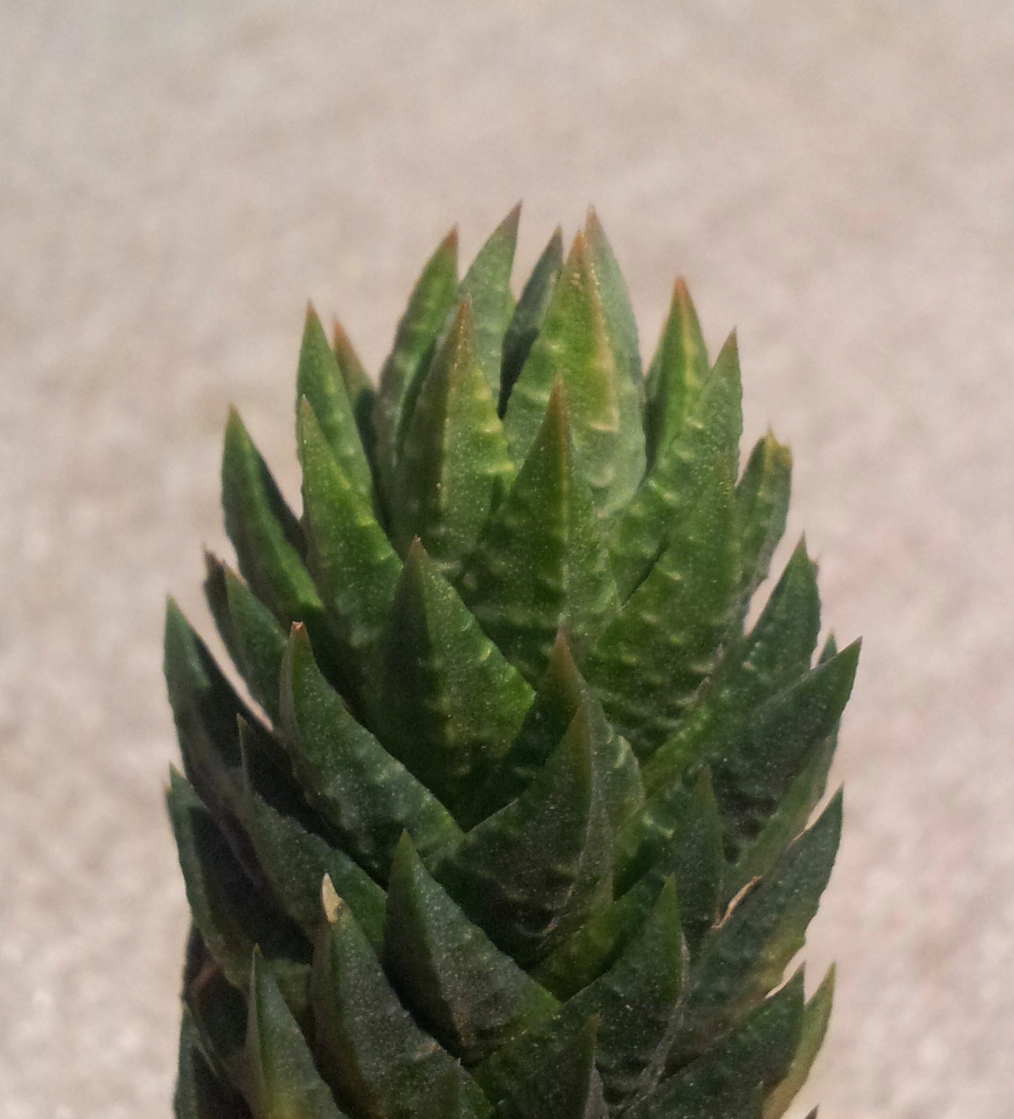 Haworthia glauca var herrei - detail